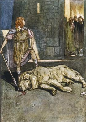 Reuben Slays Gewalt, the Hound of Culain